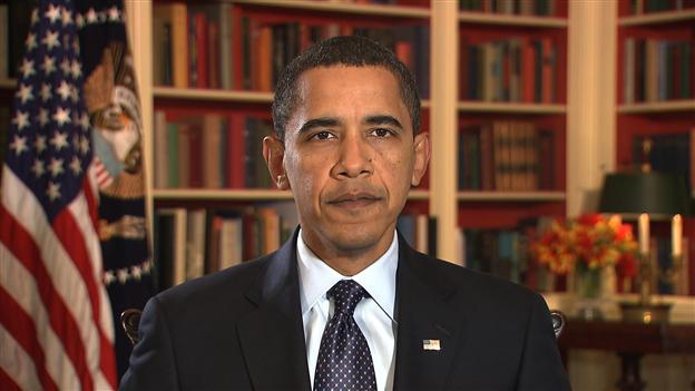 Picture of Barack Obama's first Weekly Address as President of the United States - Saturday, January 24th, 2009